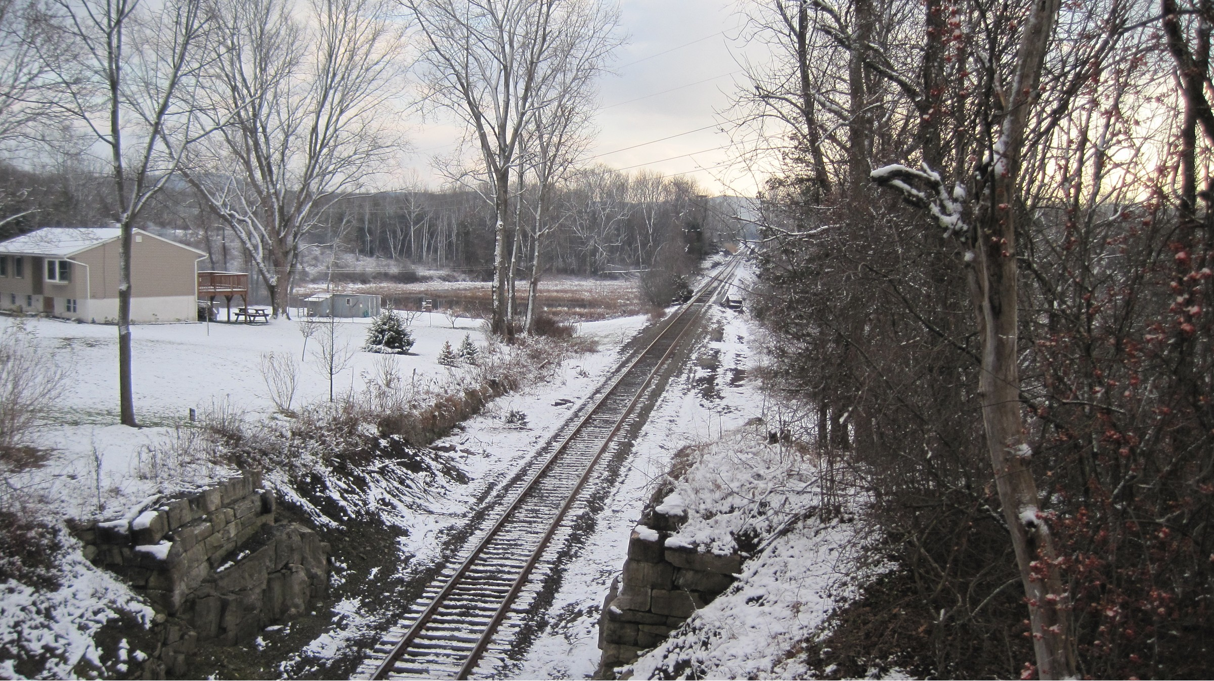 The location of the former Dover Furnace train station, looking south.